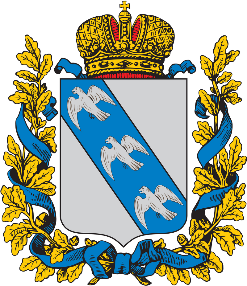 Kursk gubernia (Russian empire), coat of arms